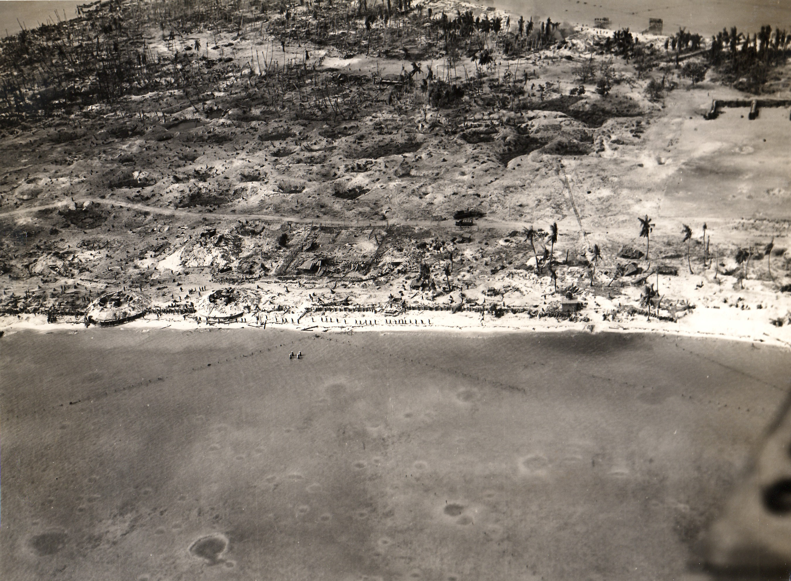 Aerial view of Betio, Tarawa Atoll, Gilbert Islands as seen from a Douglas SBD-5 Dauntless aircraft (flying at an altitude of 150 m) from the U.S. Navy aircraft carrier USS Essex (CV-9), 24 November 1943. The view is to the north toward "The Pocket", the last place of Japanese resistance. Two 12.7 mm anti-aircraft guns are visible in the lower left.